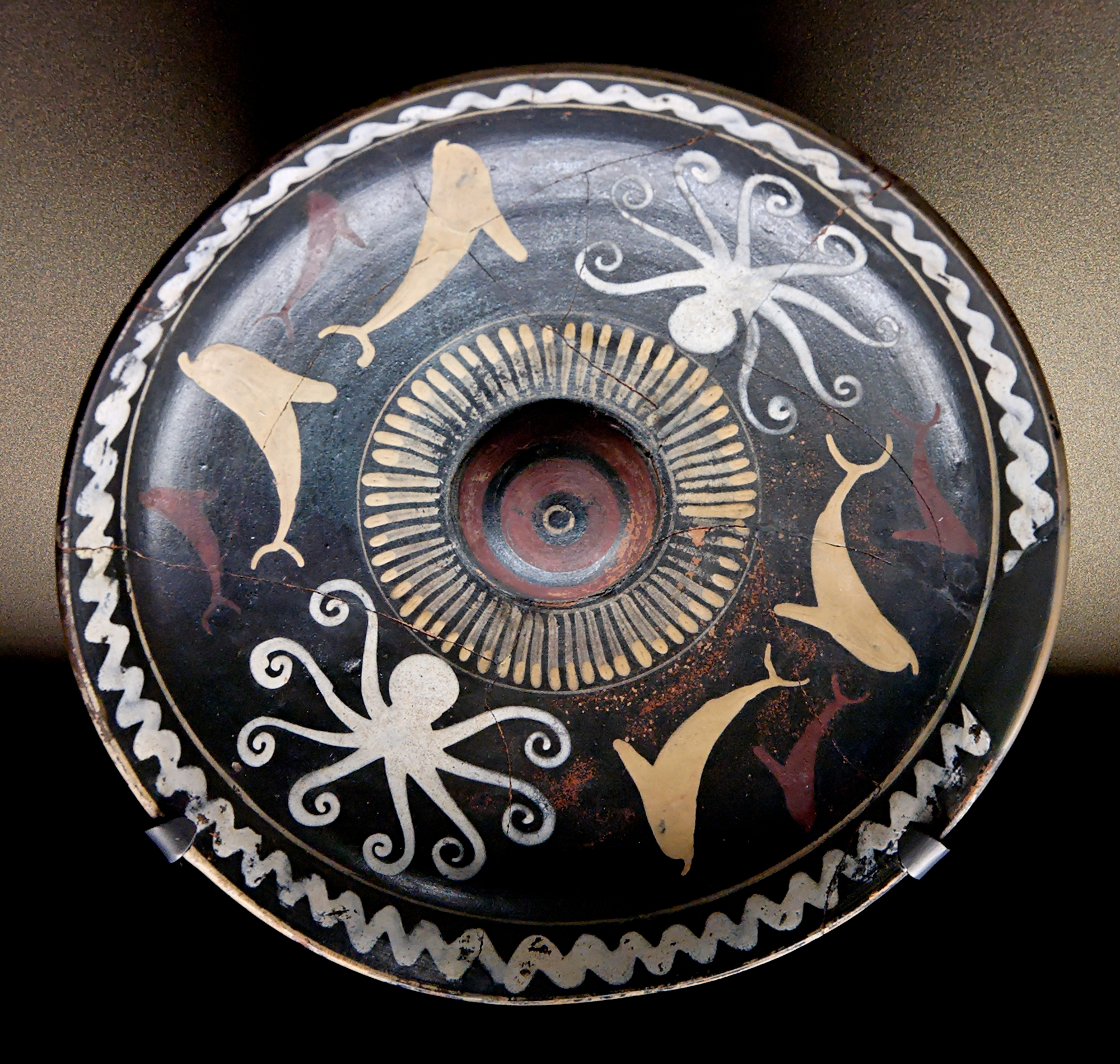 Dolphins and octopusses. Phiale with decoration in superposed colour, ca. 510–500 BC. From Eretria.